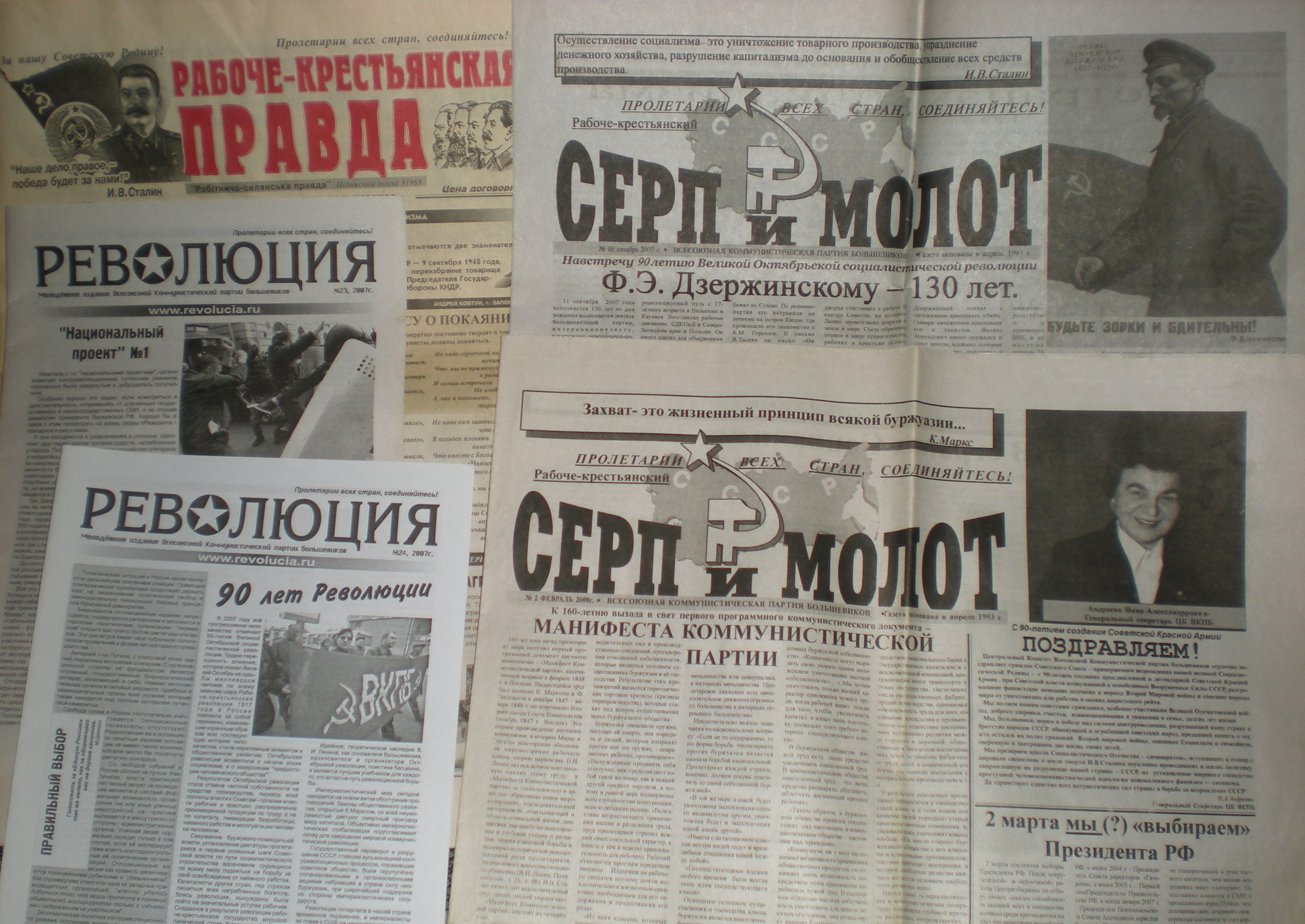 Newspapers of the Allunion Communist Party of Bolsheviks